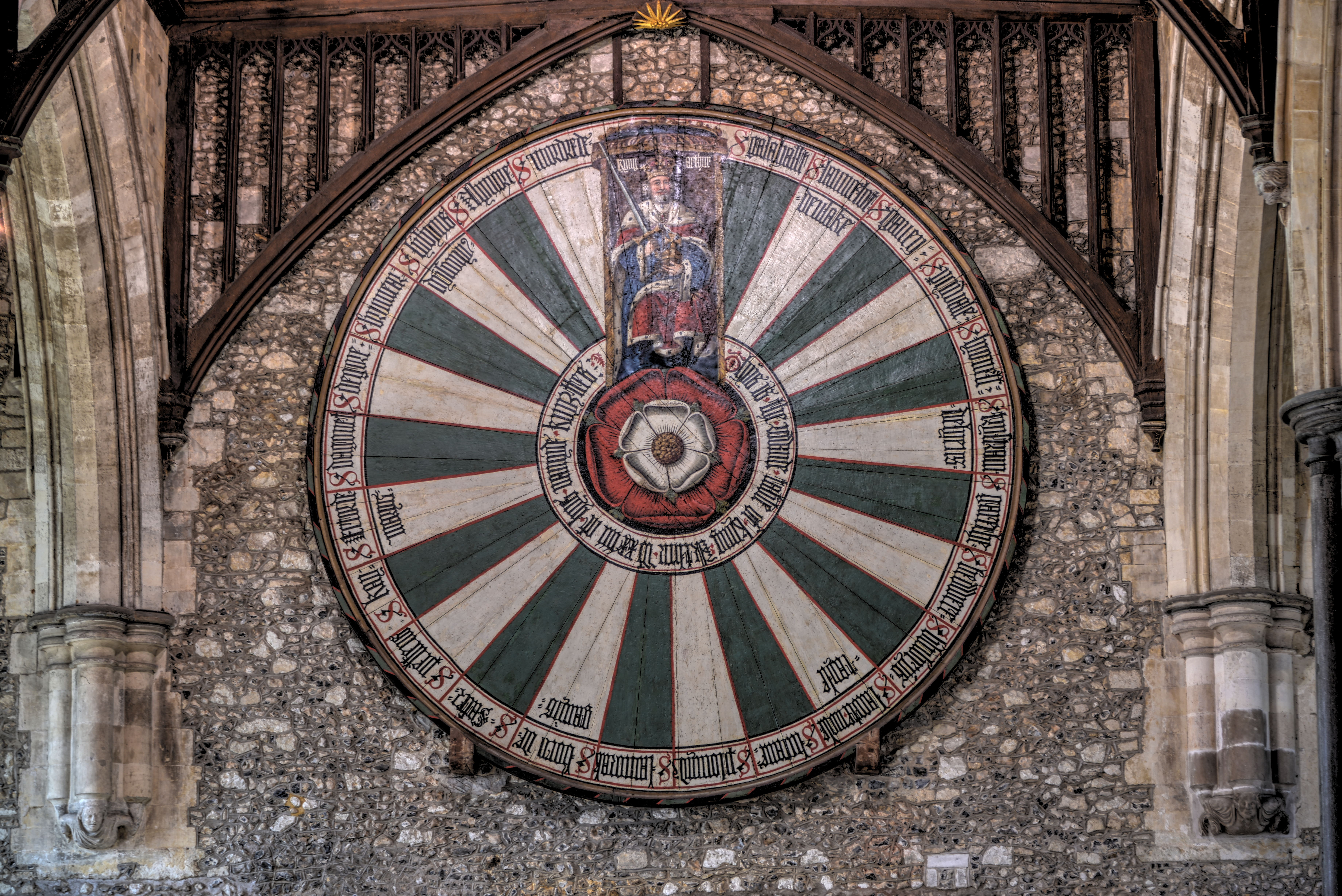 The Winchester Round Table, made by Edward I of England for a knights' tournament and repainted by Henry VIII.